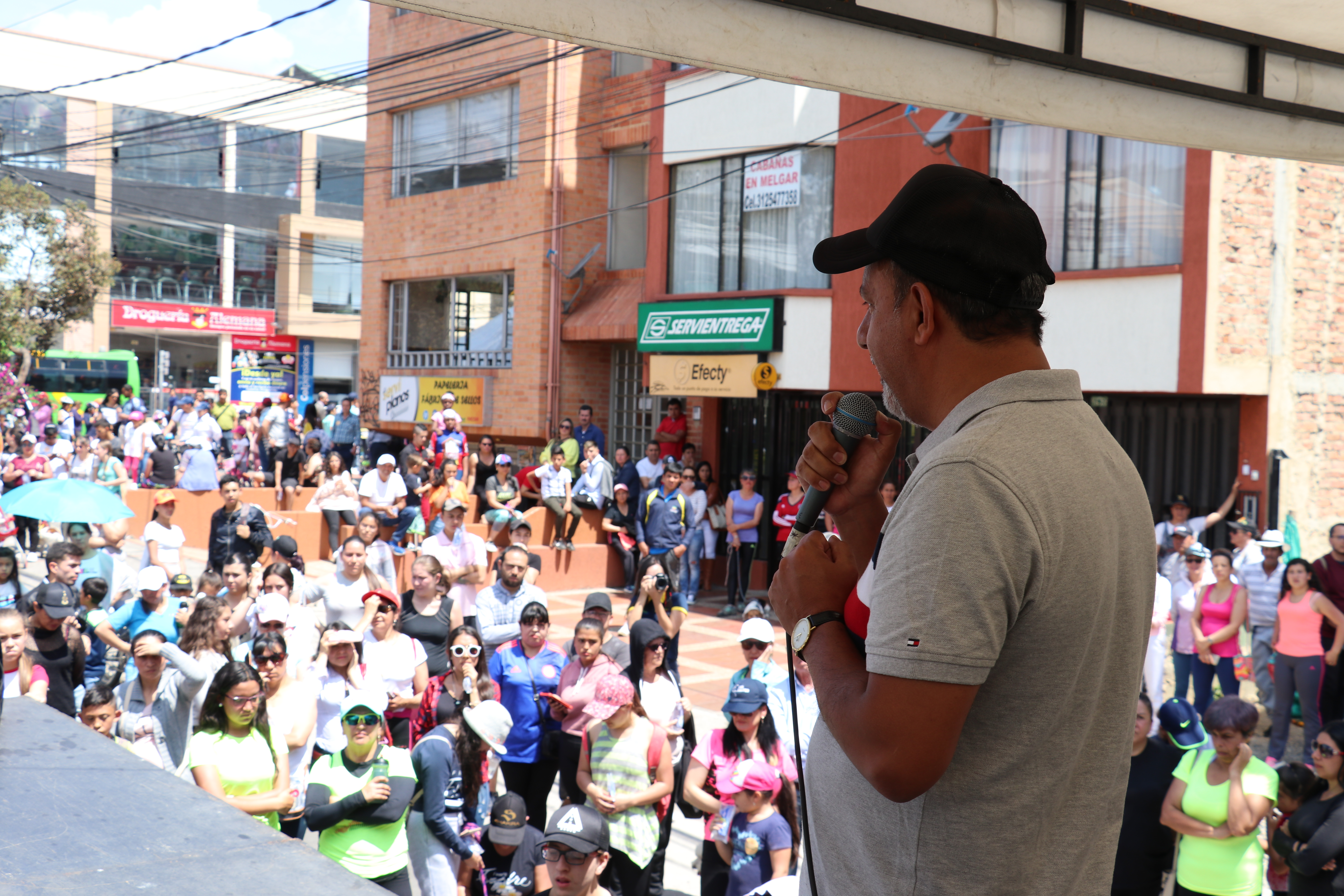 CicloVida